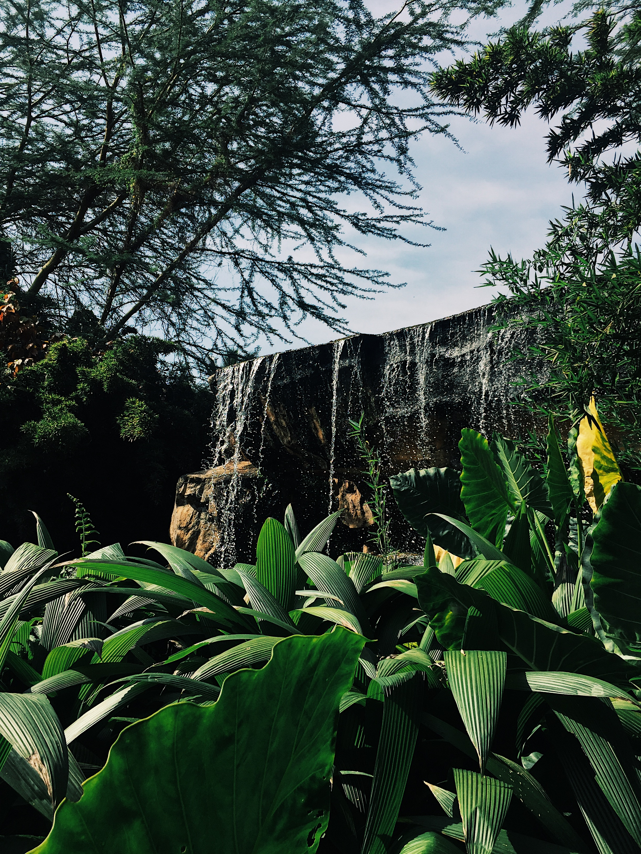 My second time in Uganda, I visited one the beautiful ressort in Uganda! The place was a little heaven on earth! This is an image with the theme "Play" from: Uganda